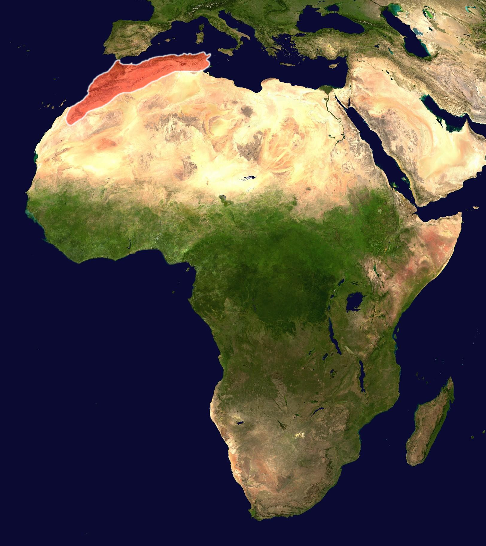 Africa Atlas Mountains. Satellite view with the mountain range marked.